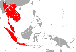 Lesser Brown Horseshoe Bat (Rhinolophus stheno) range